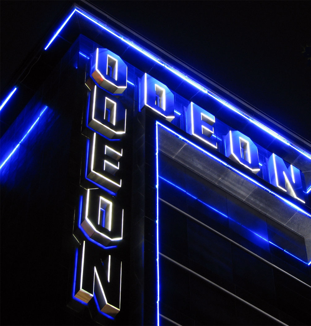 Odeon Theatre, Leicester Square, London